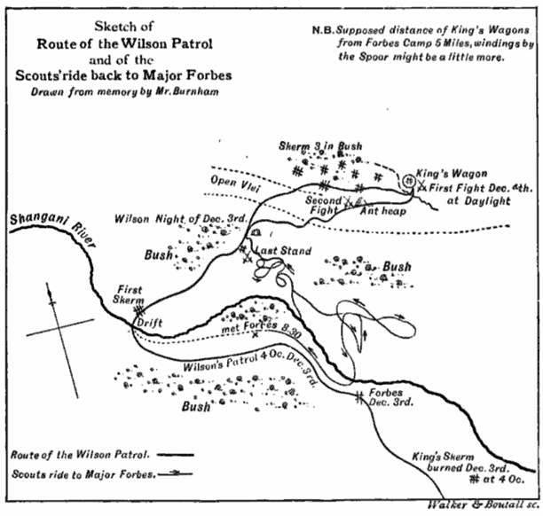 Map of the Shangani Patrol